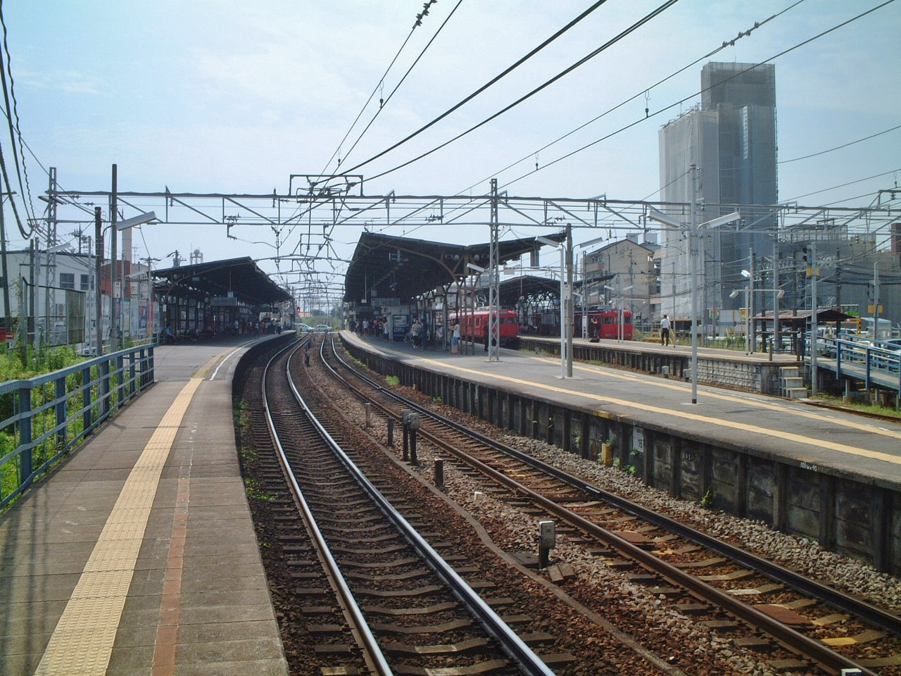 Nagoya Railroad Nagoya Main Line and Mikawa Line Chiryū Station Platform Track No.5 and 6